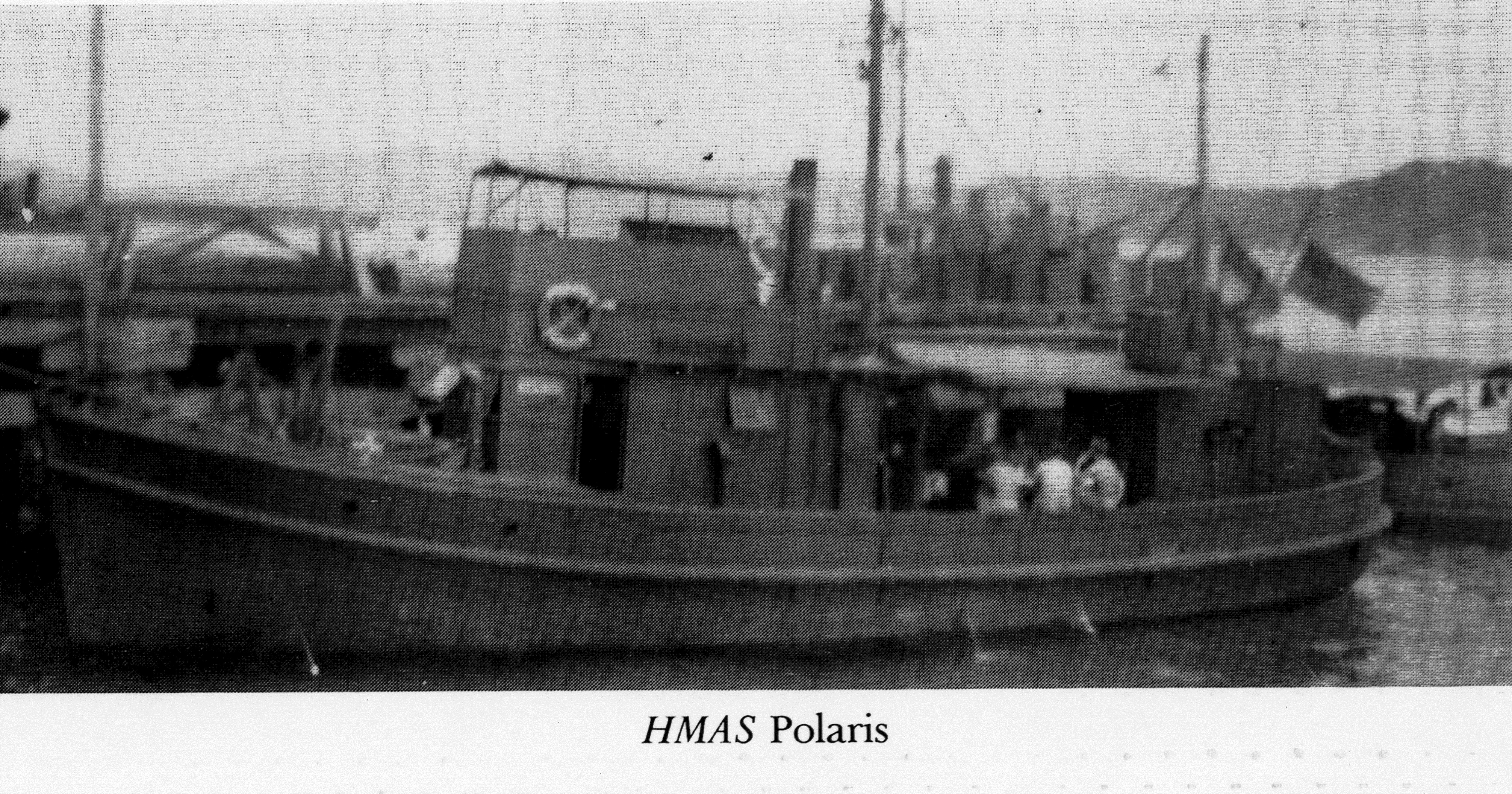 HMAS Polaris a requisitioned fishing trawler while in service in Papua New Guinea